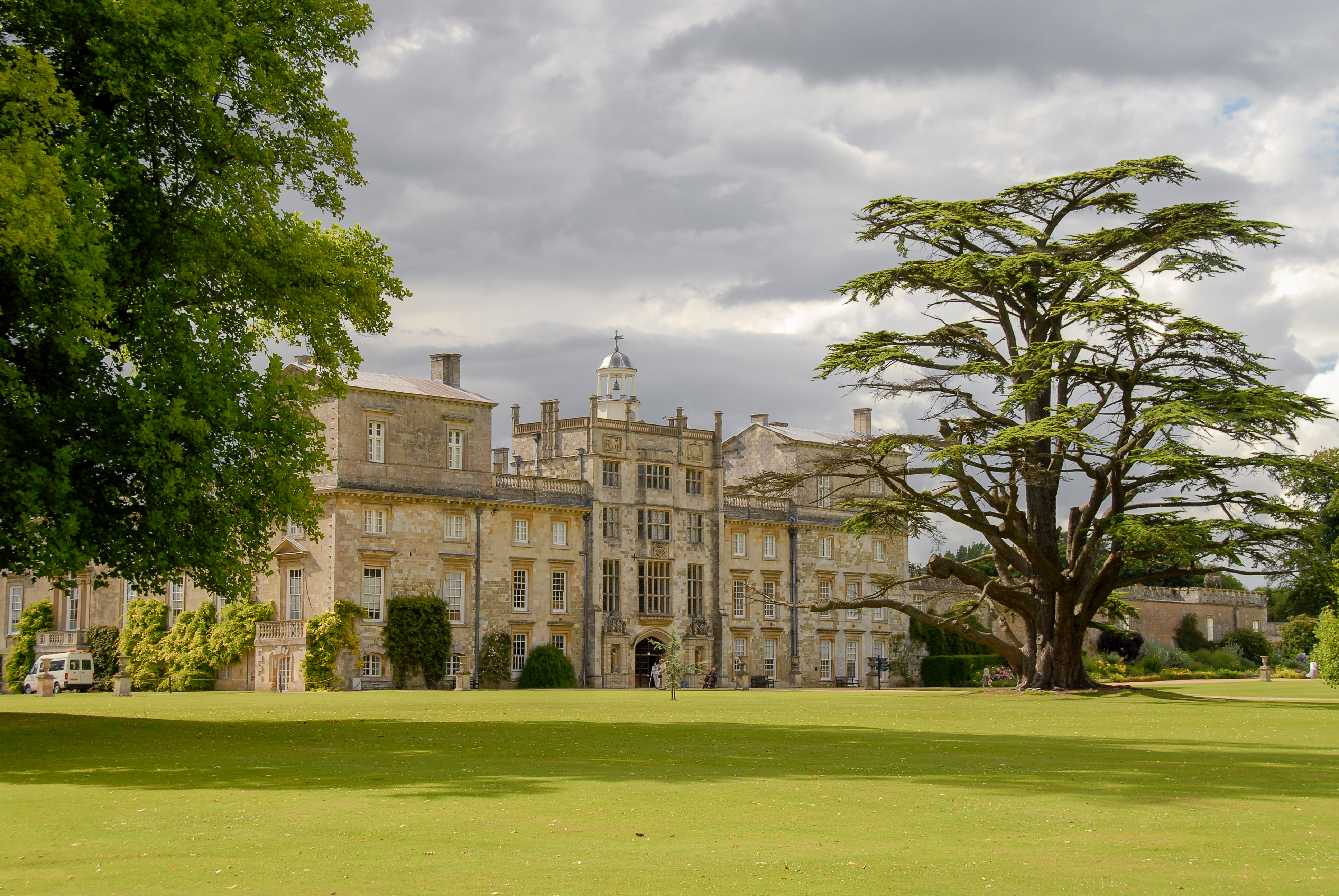 WILTON HOUSE Wikidata has entry Q1429120 with data related to this building.